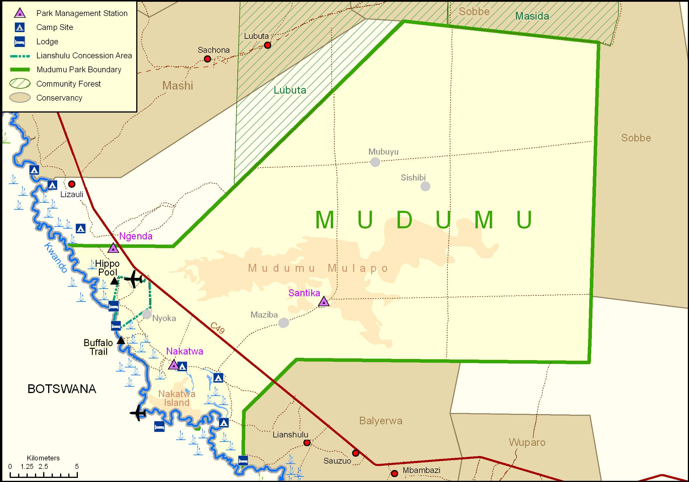 Official map of Mudumu National Park, Namibia, from the Ministry of Environment and Tourism and NamParks Project